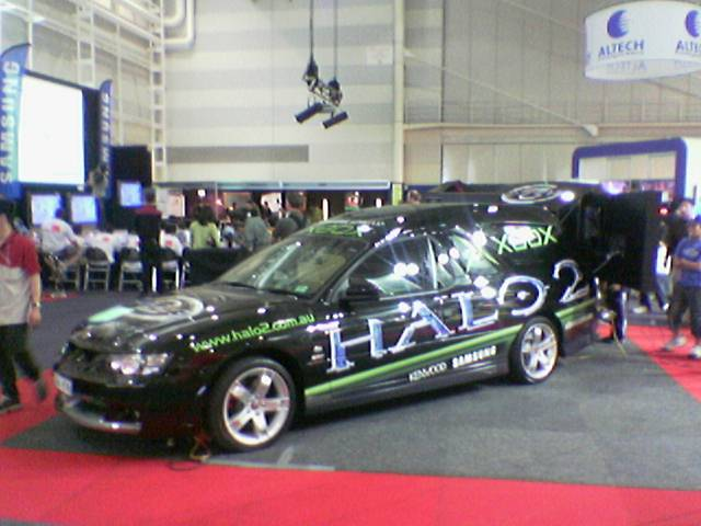 A Halo 2 Holden Commodore Ute that toured Australia with 3 televisions in the rear to promote the game.